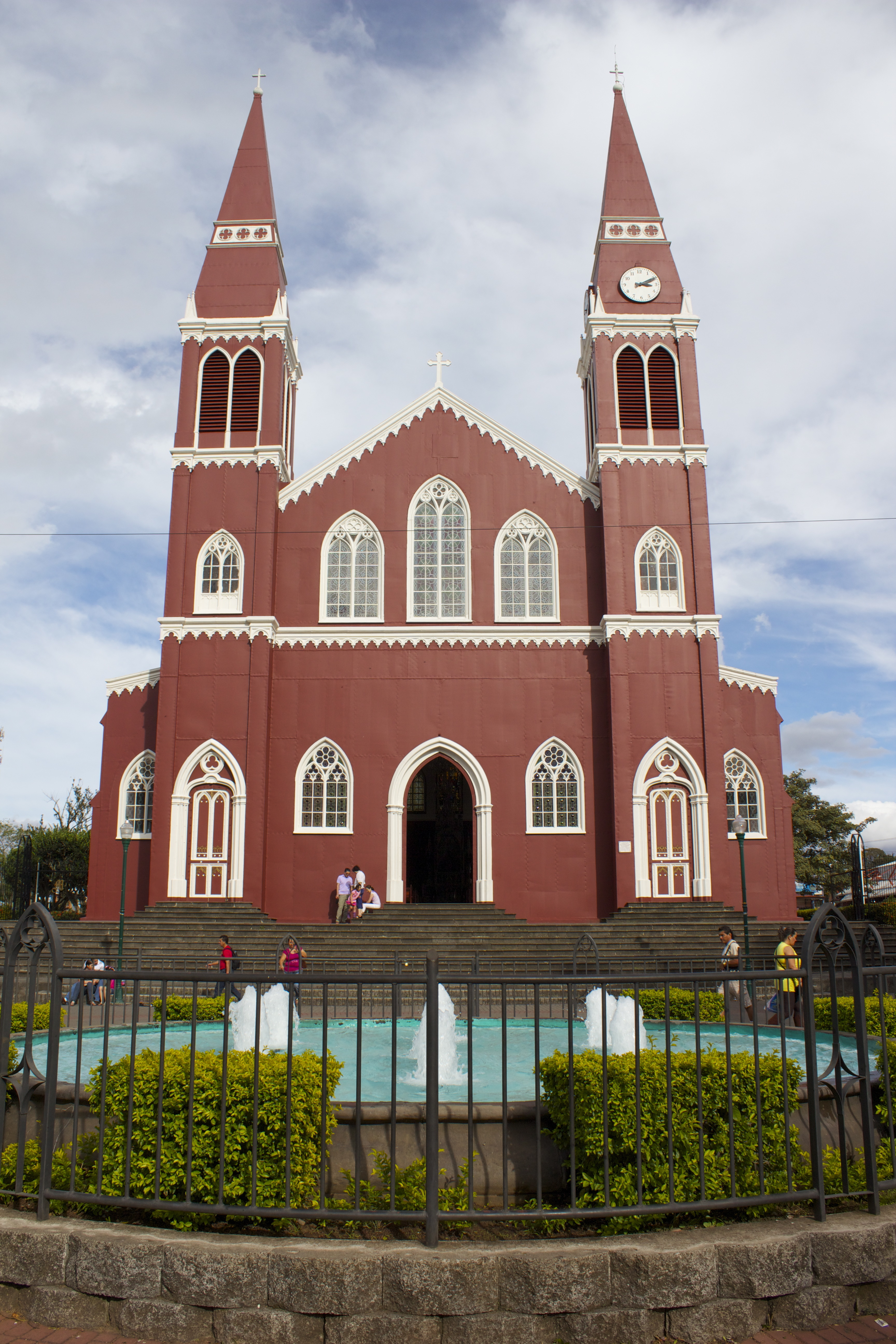 Iglesia de Nuestra Señora de las Mercedes, Grecia. Costa Rica